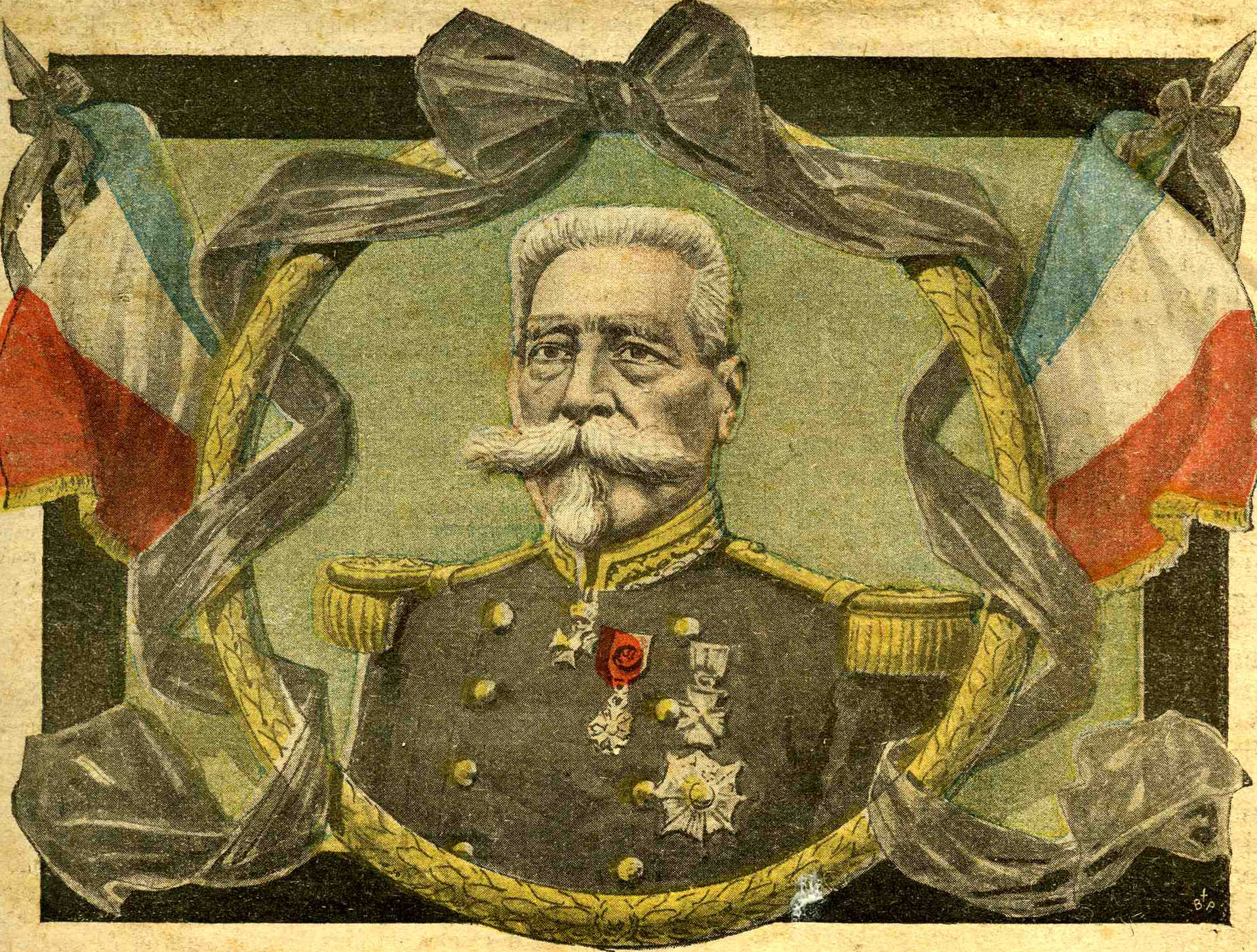 French general and minister François Charles du Barail